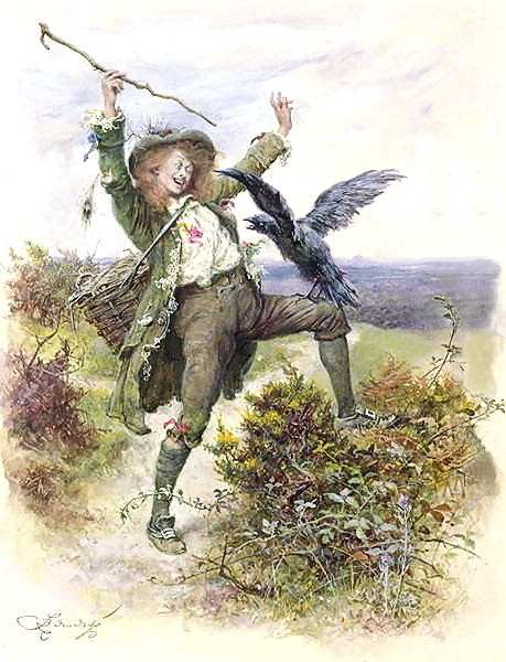 "Barnaby Rudge and the Raven Grip"